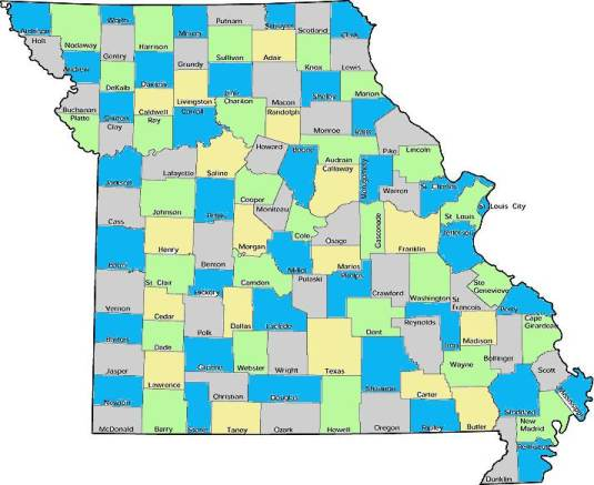 Category:Missouri maps Modified USGS/University of Missouri map Note: Modified map released under the GNU FDL.